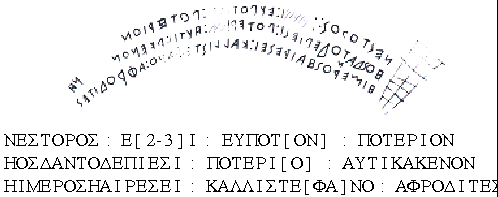 Inscription of the "Cup of Nestor" from Pithikoussai